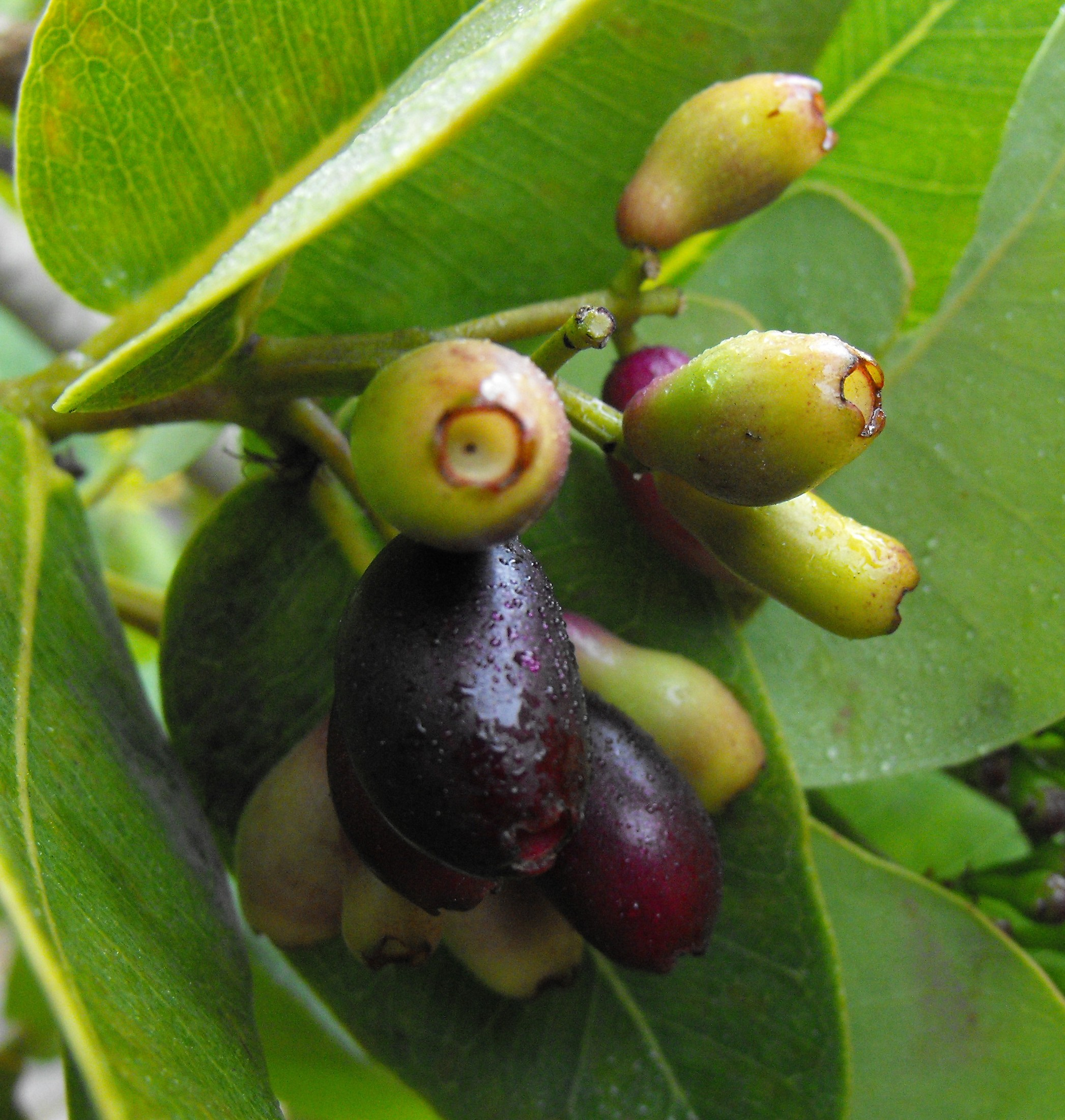 Syzygium cordatum at Quail Botanical Gardens in Encinitas, California, USA. Identified by sign.